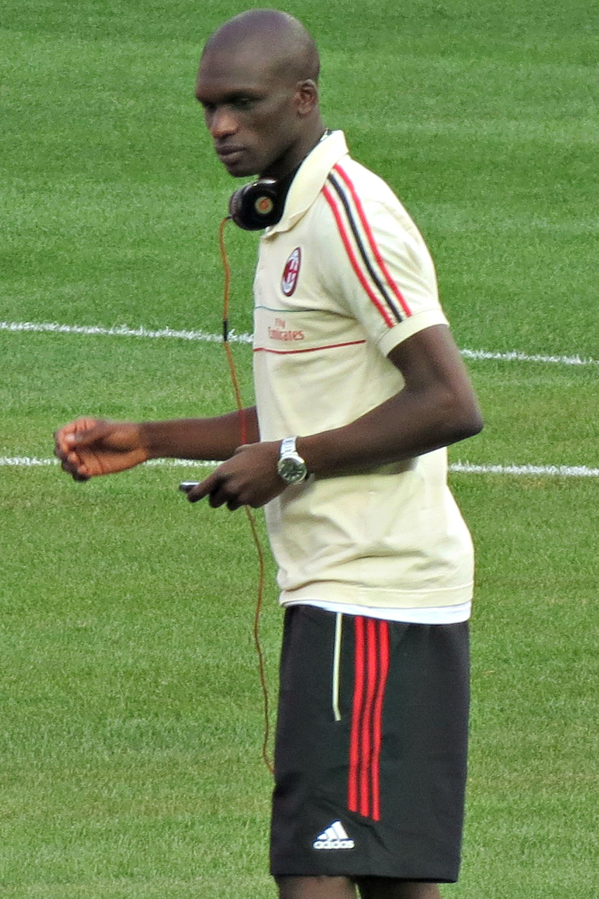 Massimiliano Allegri with players of AC Milan